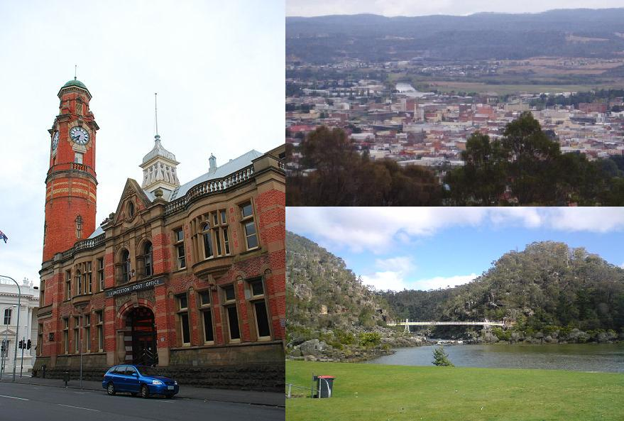 Images, from top, left to right: Left - Launceston Post Office - Image:Launceston post office christmas.jpg Top right - Over looking Launceston from Woods Reserve - Image:Launceston view of city.JPG Bottom right - Cataract Gorge and Swinging Bridge - Image:Cataract Gorge Bridge.JPG